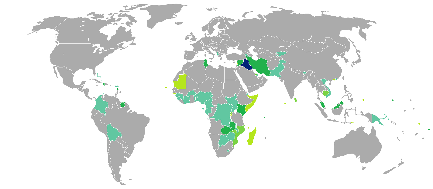 Visa requirements for Iraqi citizens Iraq Visa free access Visa on arrival eVisa Visa available both on arrival or online Visa required